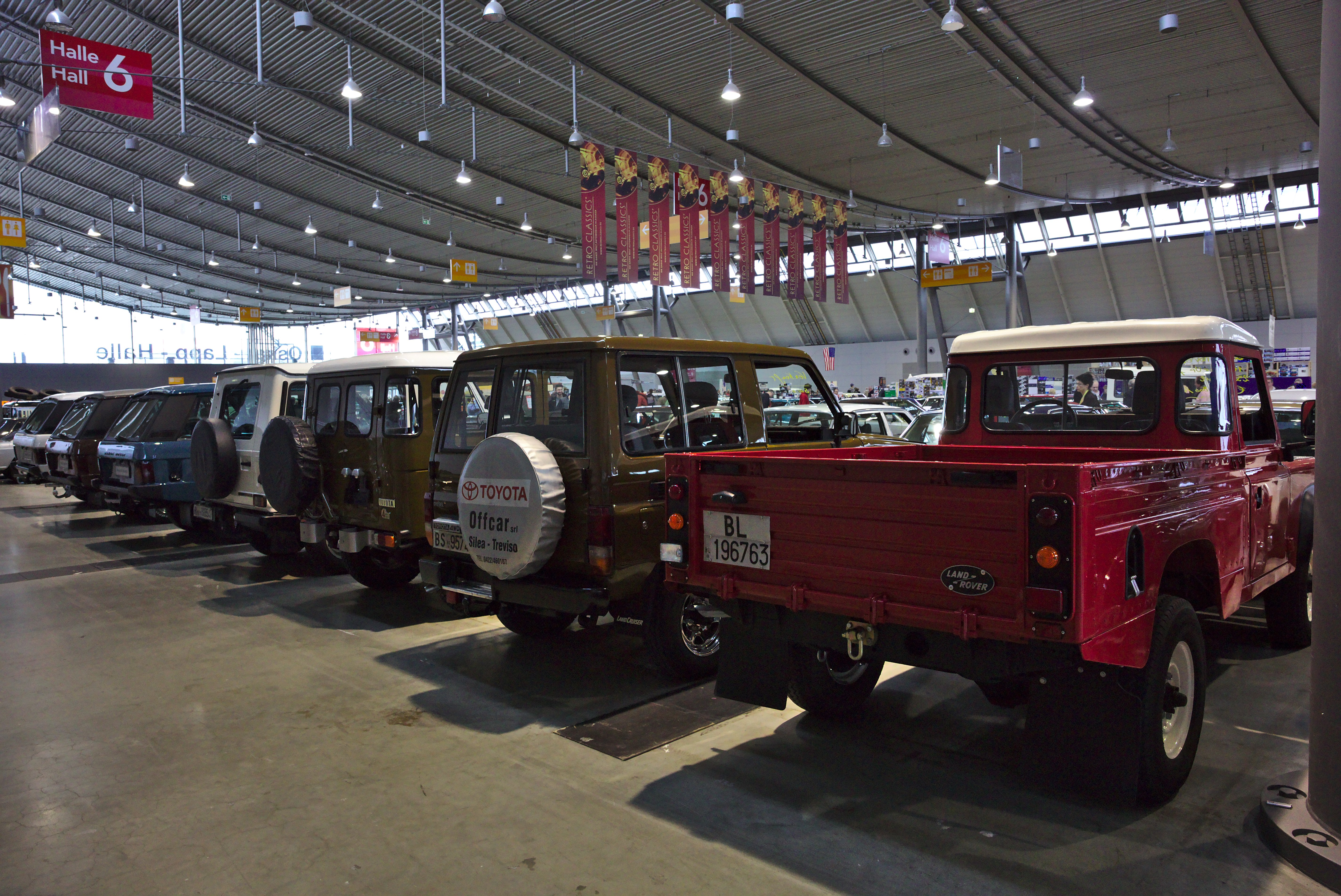 Retro Classics 2018